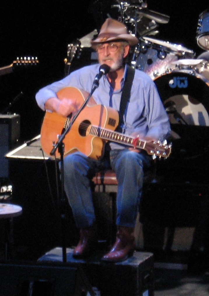 Don Williams when he was in concert in Winnipeg, Manitoba on November 5th, 2006. He performed at the Burton Cummings Theatre.